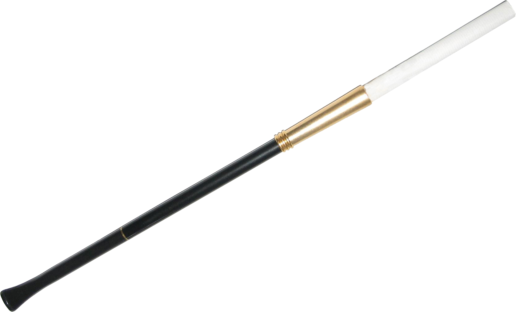 Cigarette holder, picture taken by Absinthe 12:04, 31 August 2007 (UTC) (Utente:Absinthe)